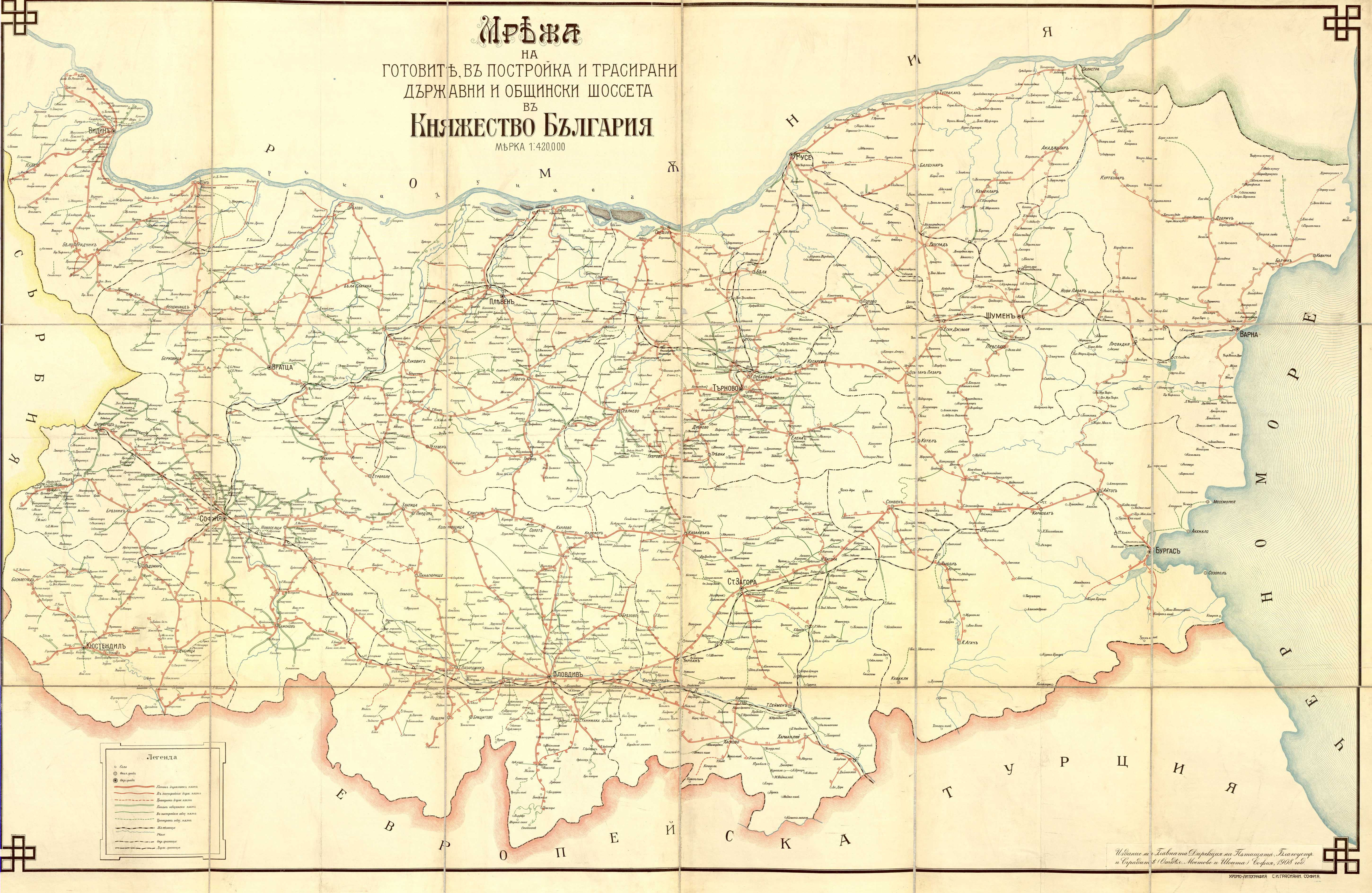 roads in Bulgaria c. 1908